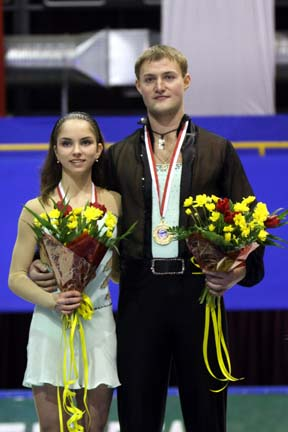 Vera Bazarova & Yuri Larionov (RUS) on the podium at the 2007-2008 ISU Junior Grand Prix Final. They won this competition. They were later stripped of the title due to Larionov's doping violation.